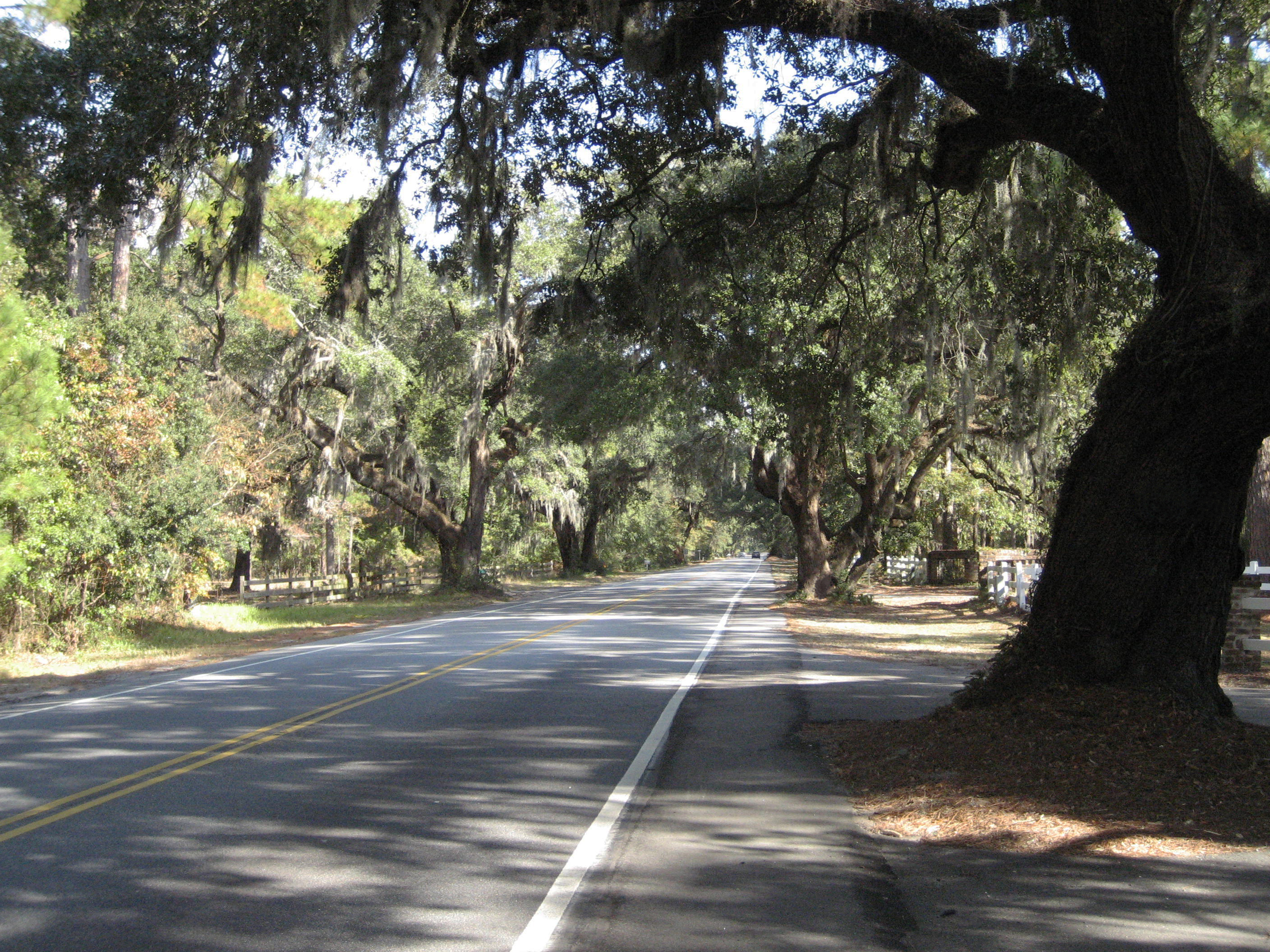 A scenic view of May River Road, Bluffton SC